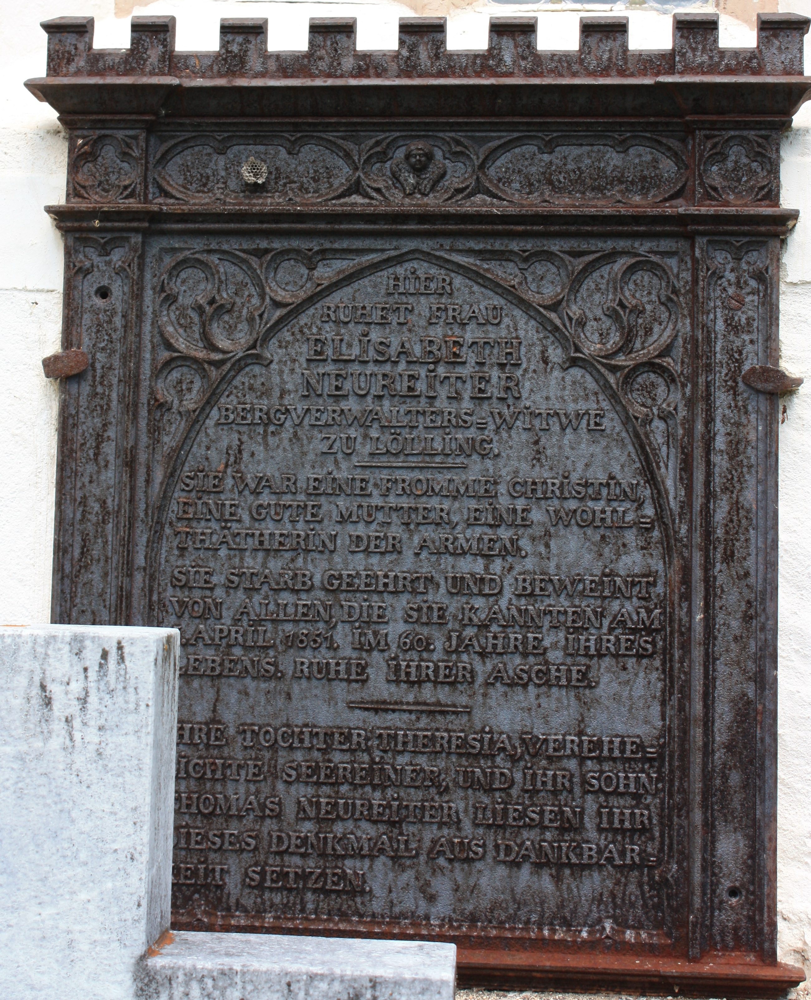 Parish church - Epitaph Locality:Lölling Community:Hüttenberg